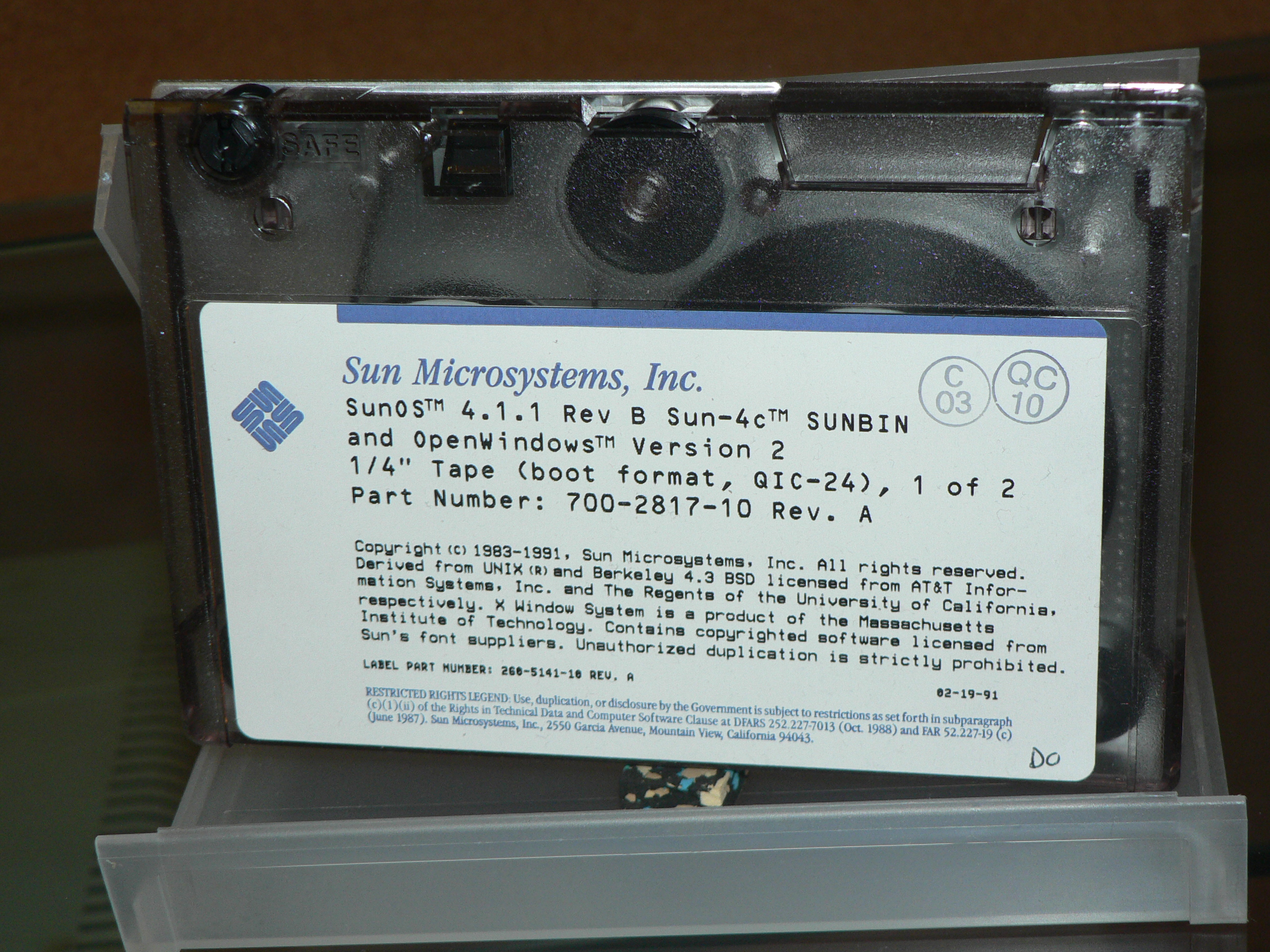 SunOS 4.1.1 tape Stanford museum of computing, William H. Gates building, Stanford University